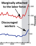 Ranks of Discouraged Workers and Others Marginally Attached to the Labor Force Rise During Recession, Issues in Labor Statistics